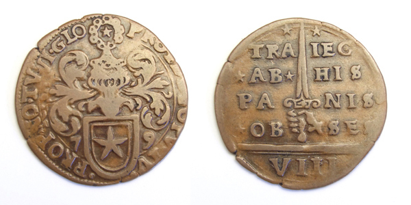 Maastricht, siege money, 8-stuyver 1579. Struck during the siege of Maastricht by the Spanish troops.